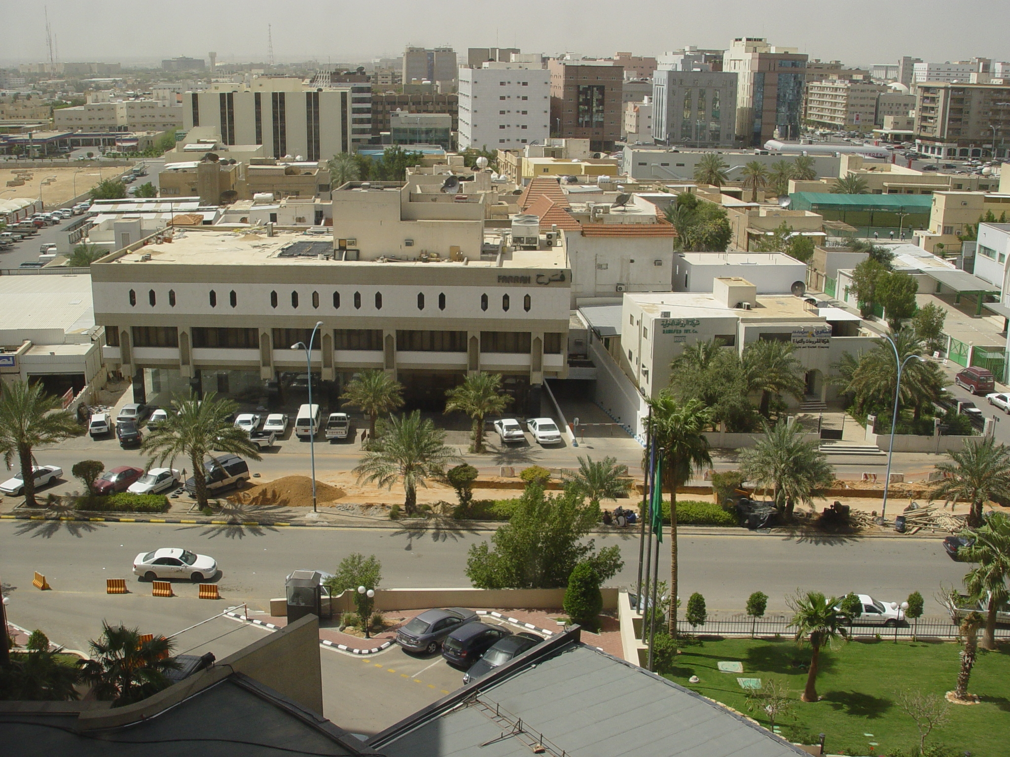 Riyadh's view ....